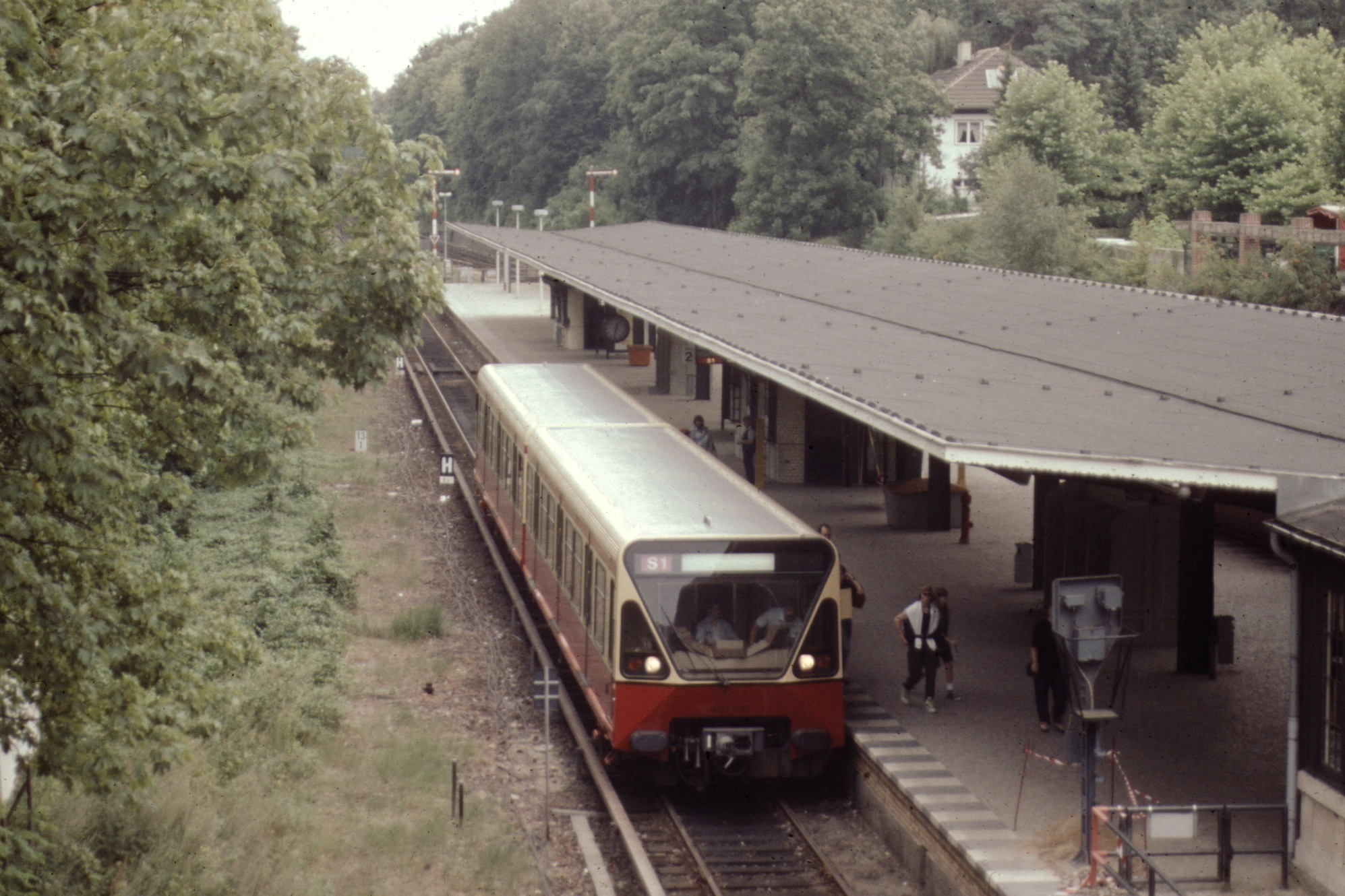 S-Bahn Berlin ET 480 in Berlin Frohnau